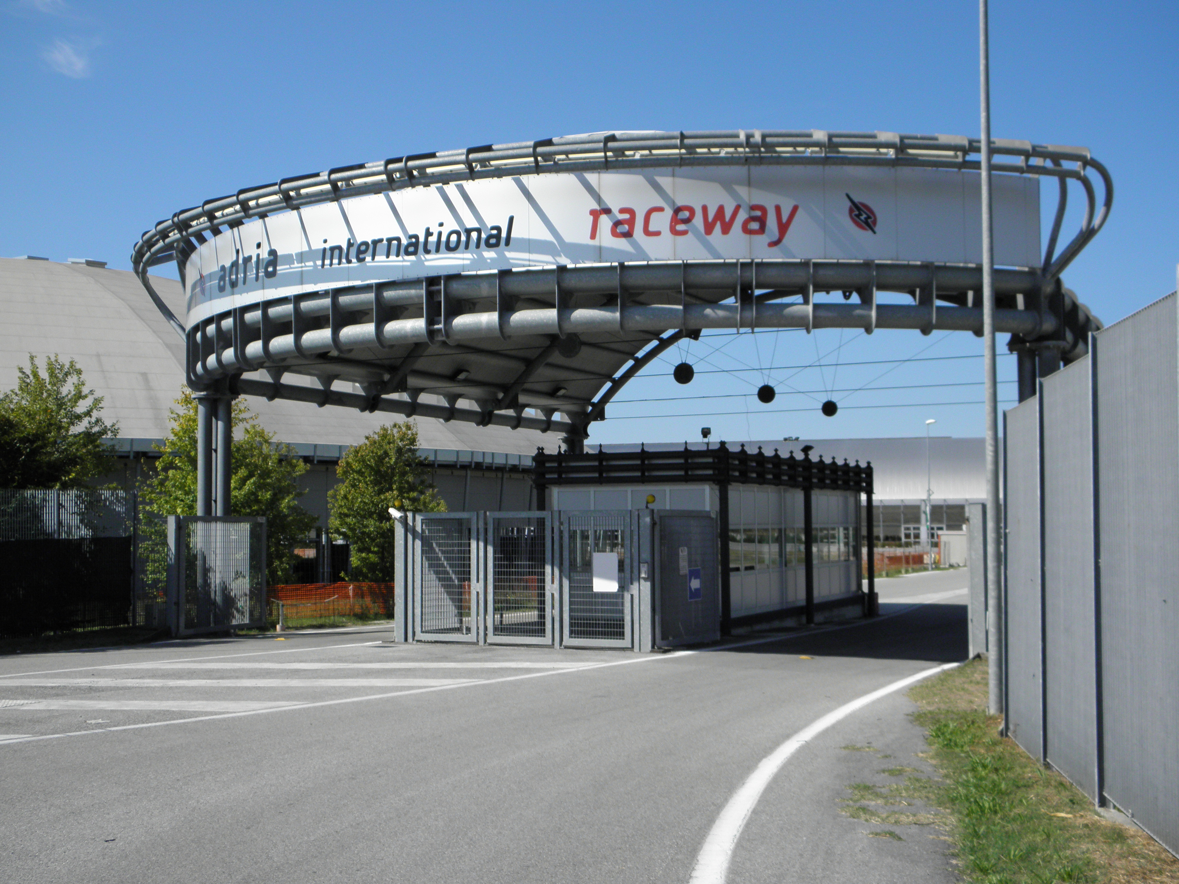 Adria International Raceway, front gate.